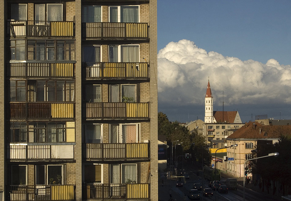 In the centre of Siauliai, view from the top floor of a shopping centre towards the St. Peter and Paul Church